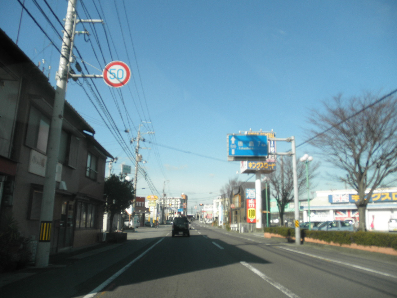 Edatown Komatsushimacity Tokushimapref Tokushimaprefectural road 120 Tokushima Komatsushima Line